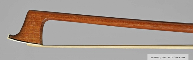 Tip